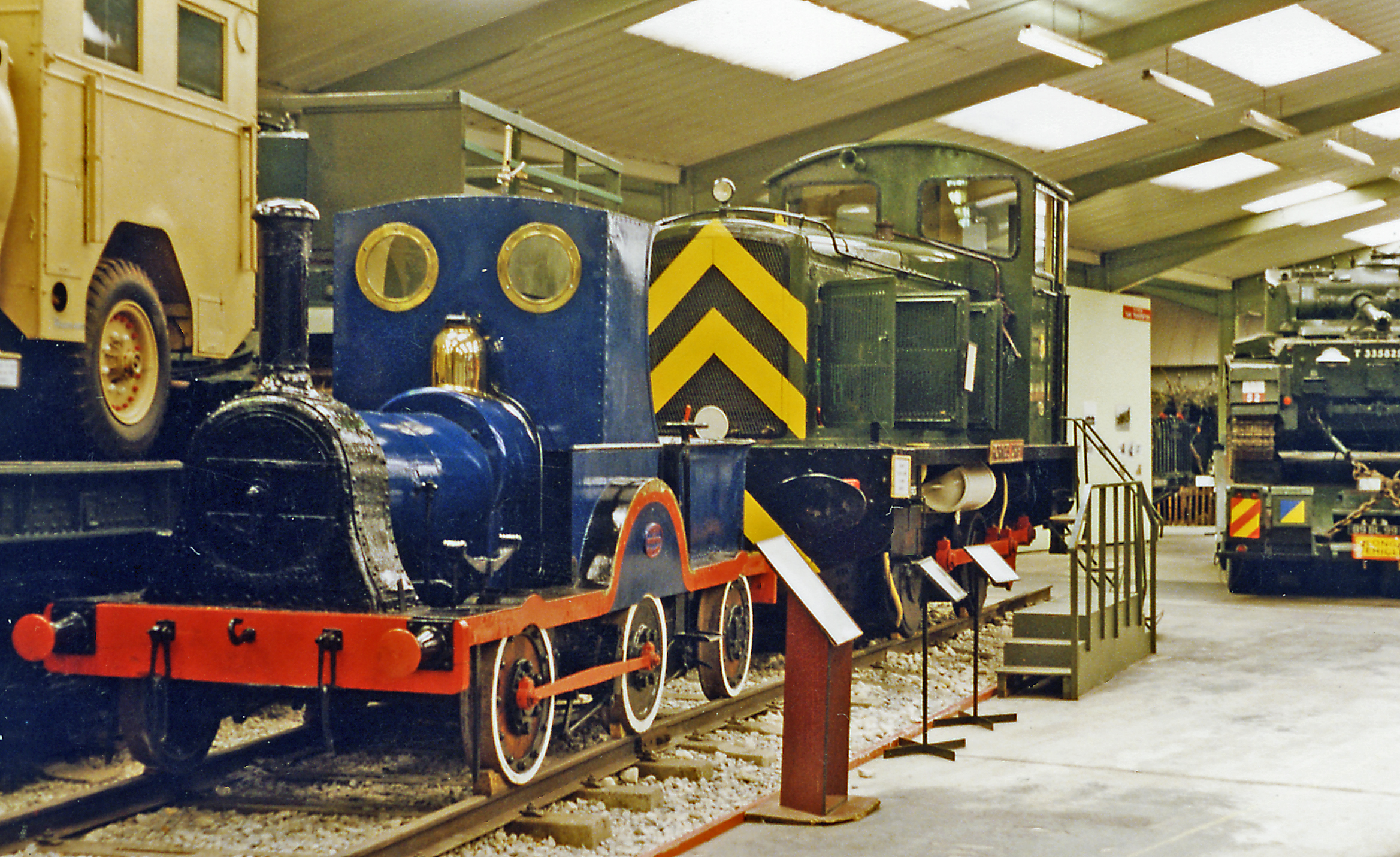 Museum of Army Transport, Beverley, East Riding of Yorkshire, England: 0-4-2T 'Gazelle'. Inside the Museum - closed in 2003, is the little 0-4-2T 'Gazelle', which was used on the Shropshire & Montgomeryshire Railway in its military days! When the Museum of Army Transport closed Gazelle was taken into the care of the Colonel Stephens Railway Museum. See [Gazelle - Mr Burkitt's Engine for the history of this fscinating engine.